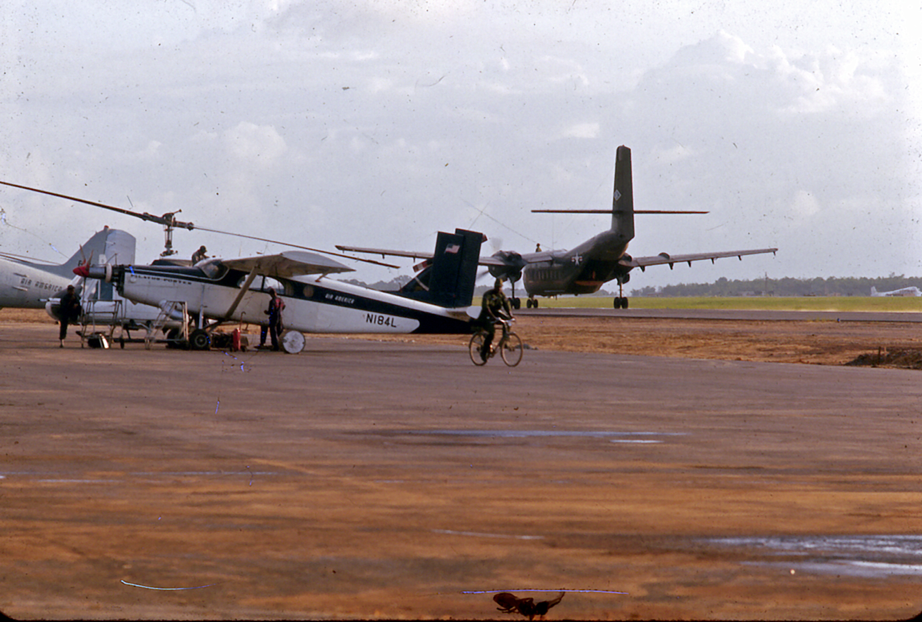 Air America and US Air Force planes in Danag, Vietnam in 1966/1967